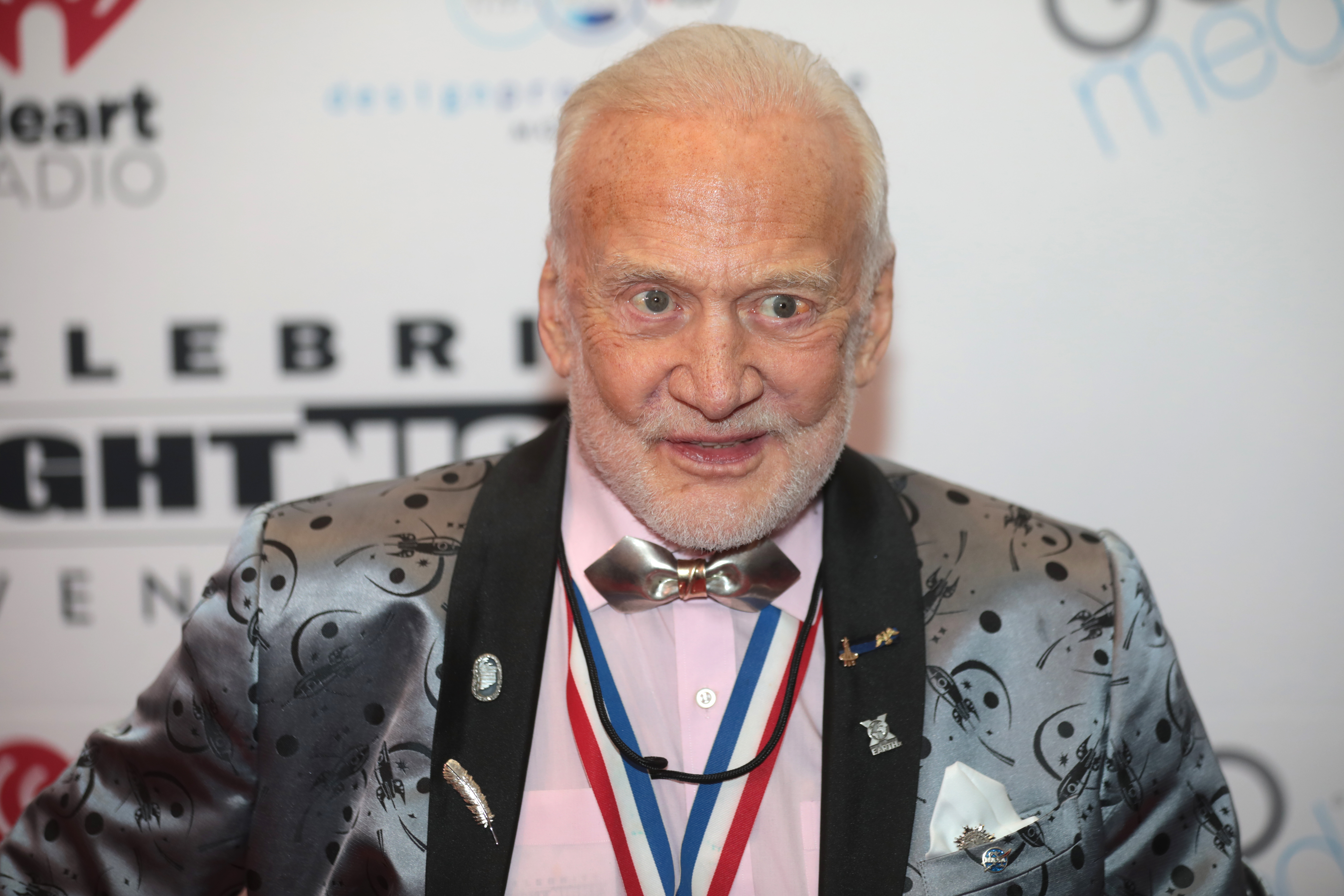 Buzz Aldrin on the red carpet at Celebrity Fight Night XXV at the JW Marriott Desert Ridge Resort & Spa in Phoenix, Arizona.